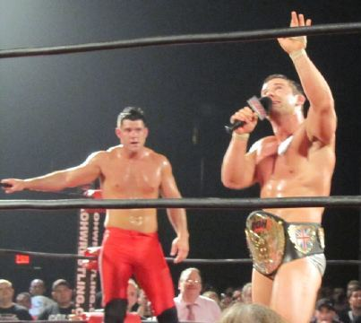 Davey Richards (right) after winning the Ring of Honor World Championship from Eddie Edwards (left) at the Hammerstein Ballroom, NY on 26th June, 2011.